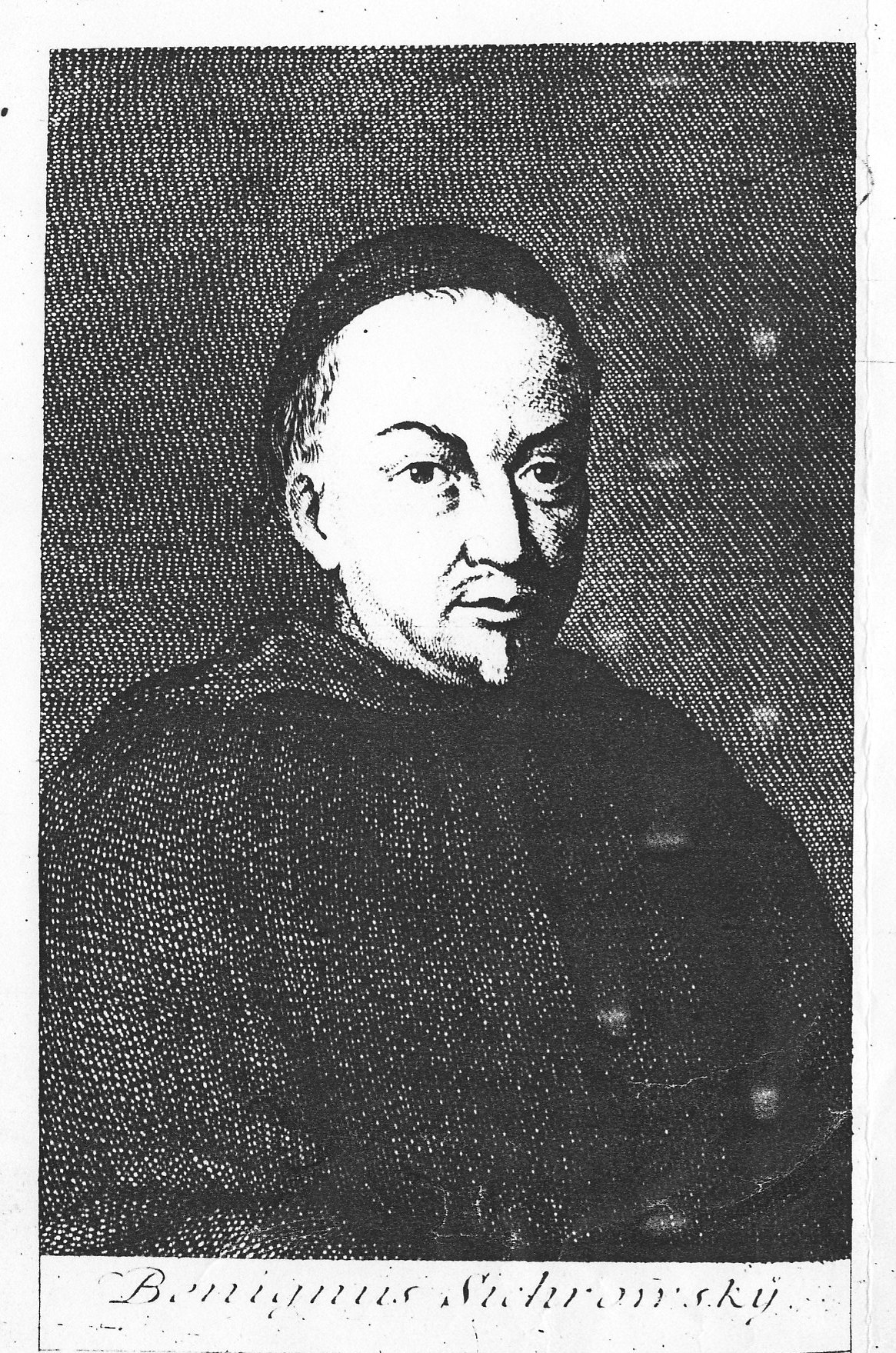 Benignus Sychrovský